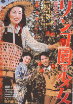 Movie poster for 1952 Japanese movie Ringo-en no shōjo (リンゴ園の少女, lit. "Girl of Apple Park").